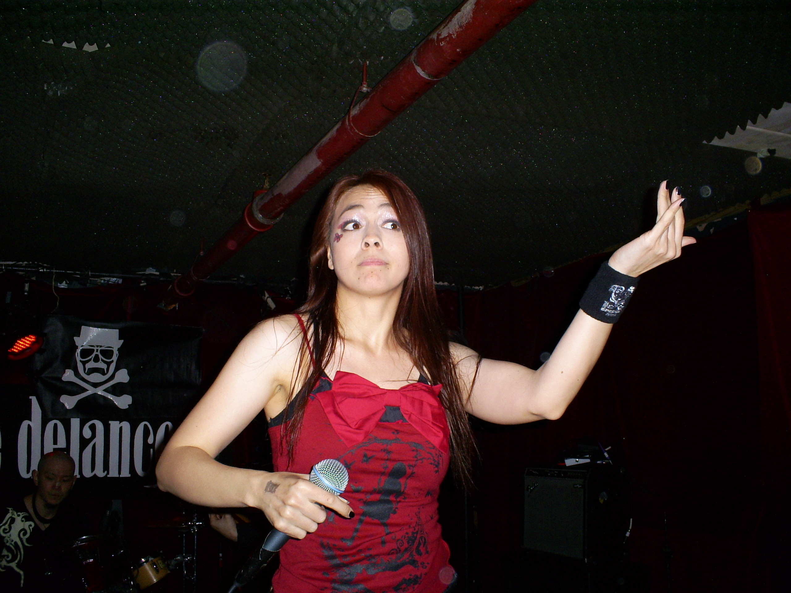 Anza Ooyama performing live with Head Phones President at The Delancey in New York, NY..